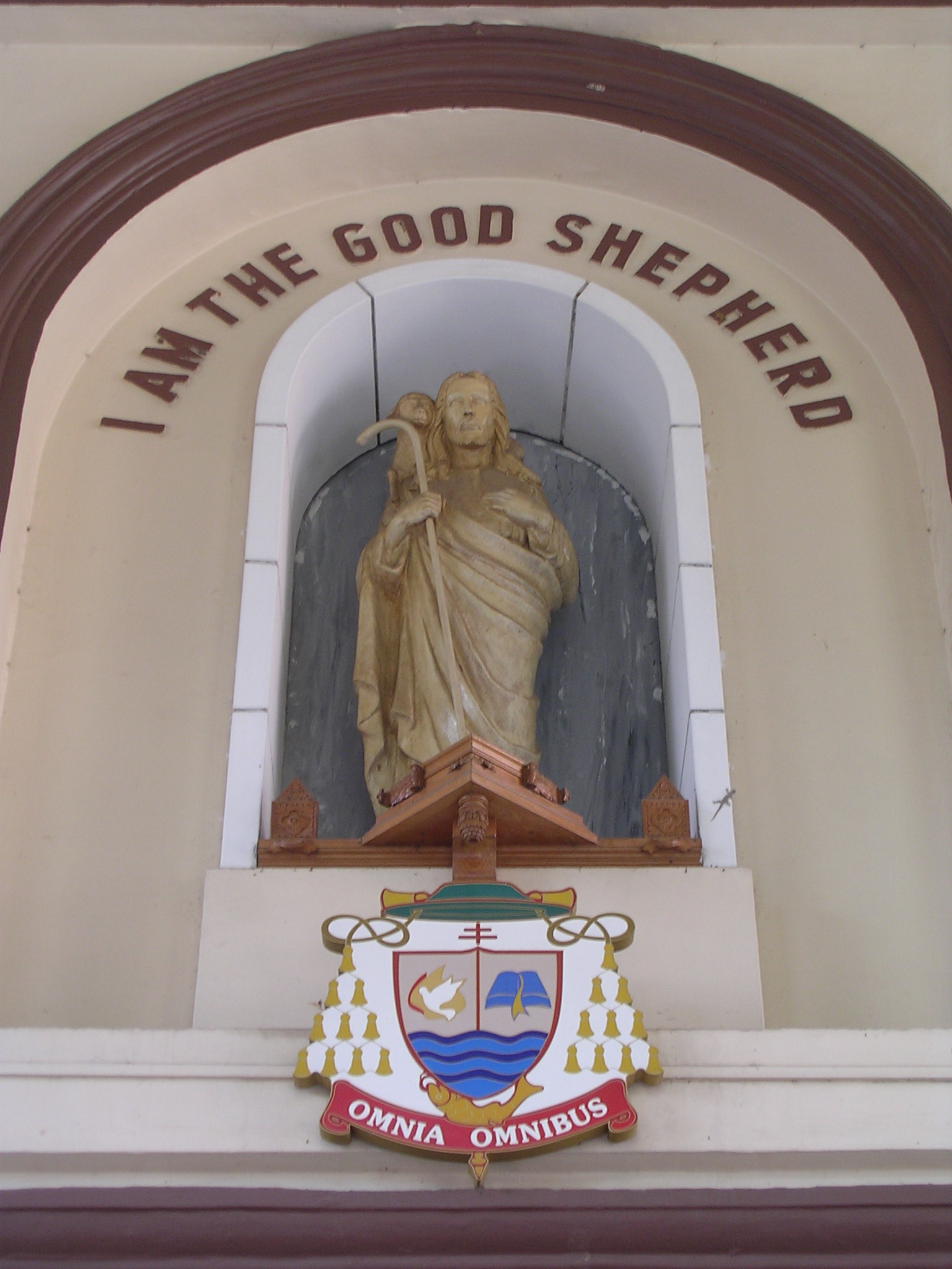 A statue of Jesus as the Good Shepherd in the Cathedral of the Good Shepherd, Singapore.